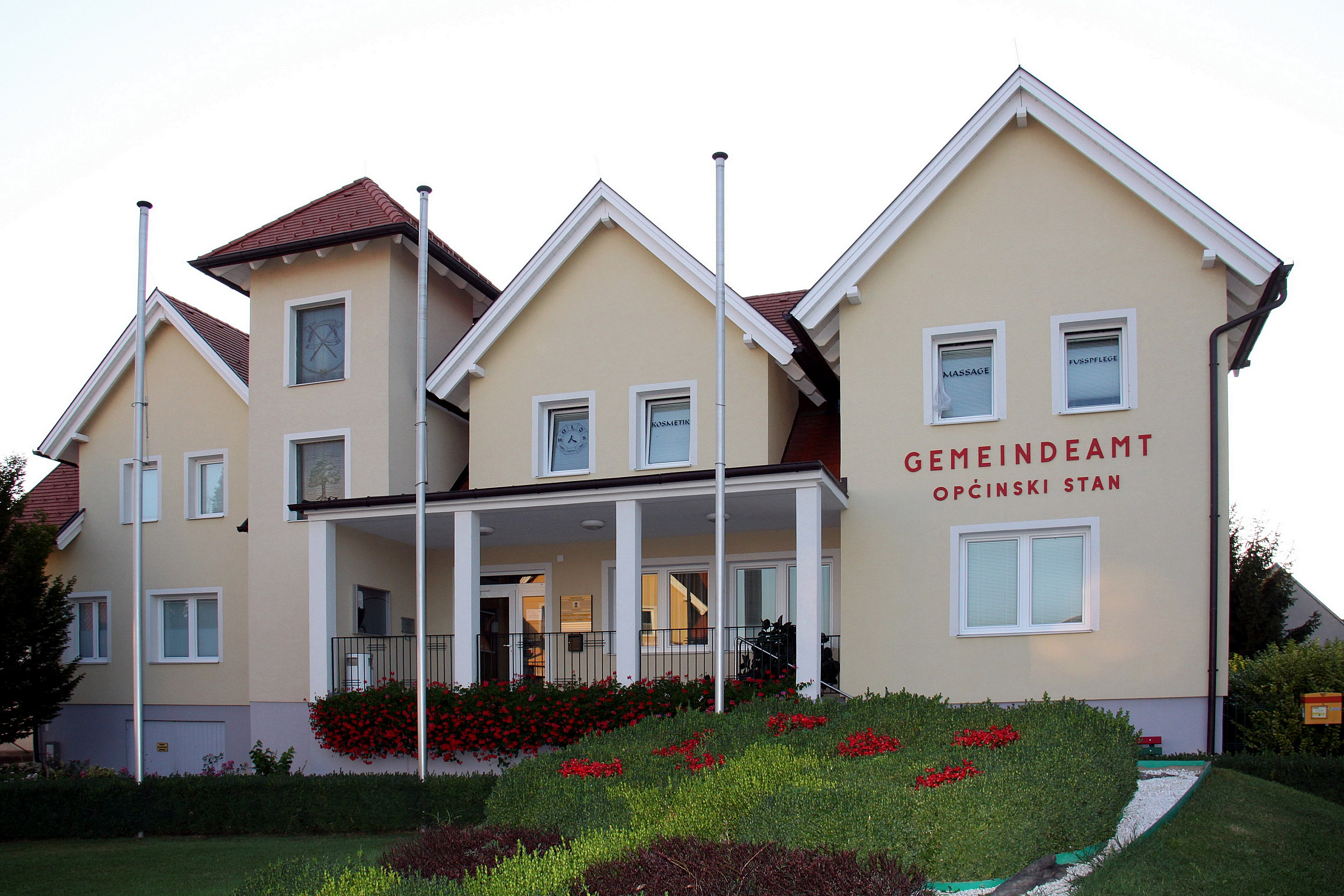 Municipal office - Baumgarten Object location47° 44′ 19.21″ N, 16° 30′ 02.02″ E